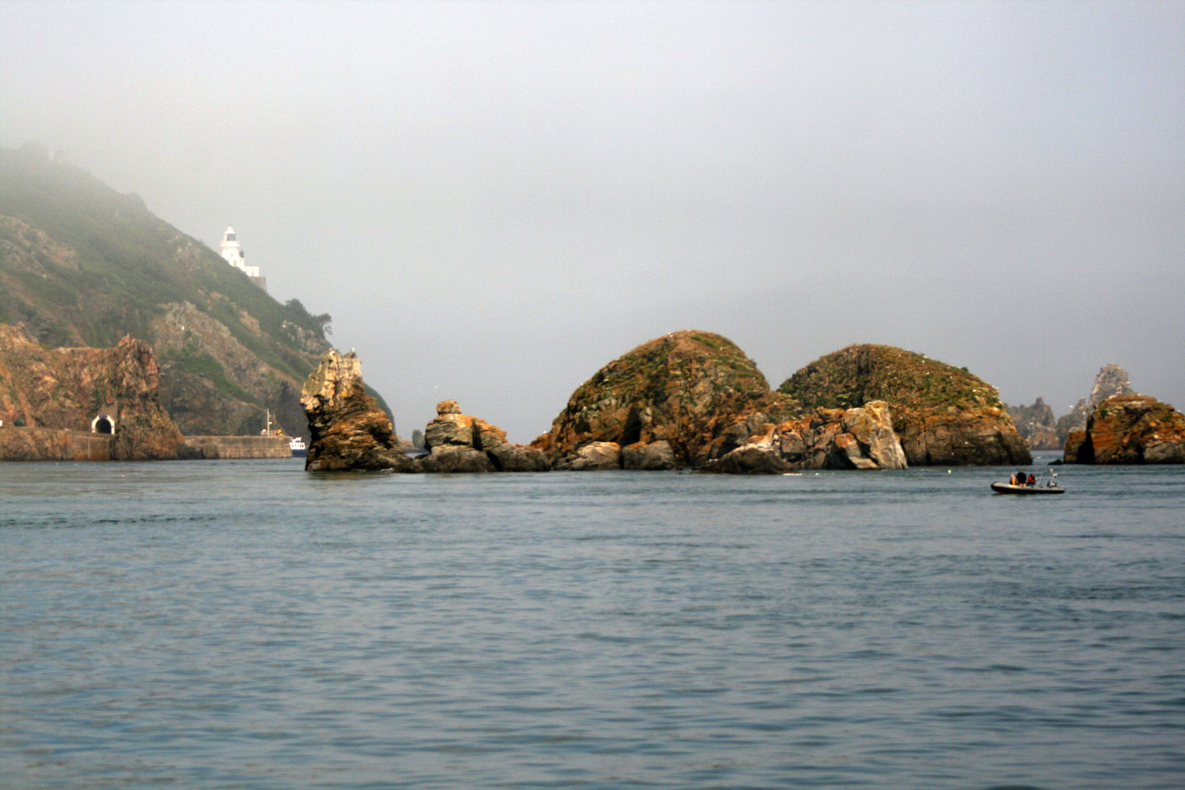 Sark, June 2009